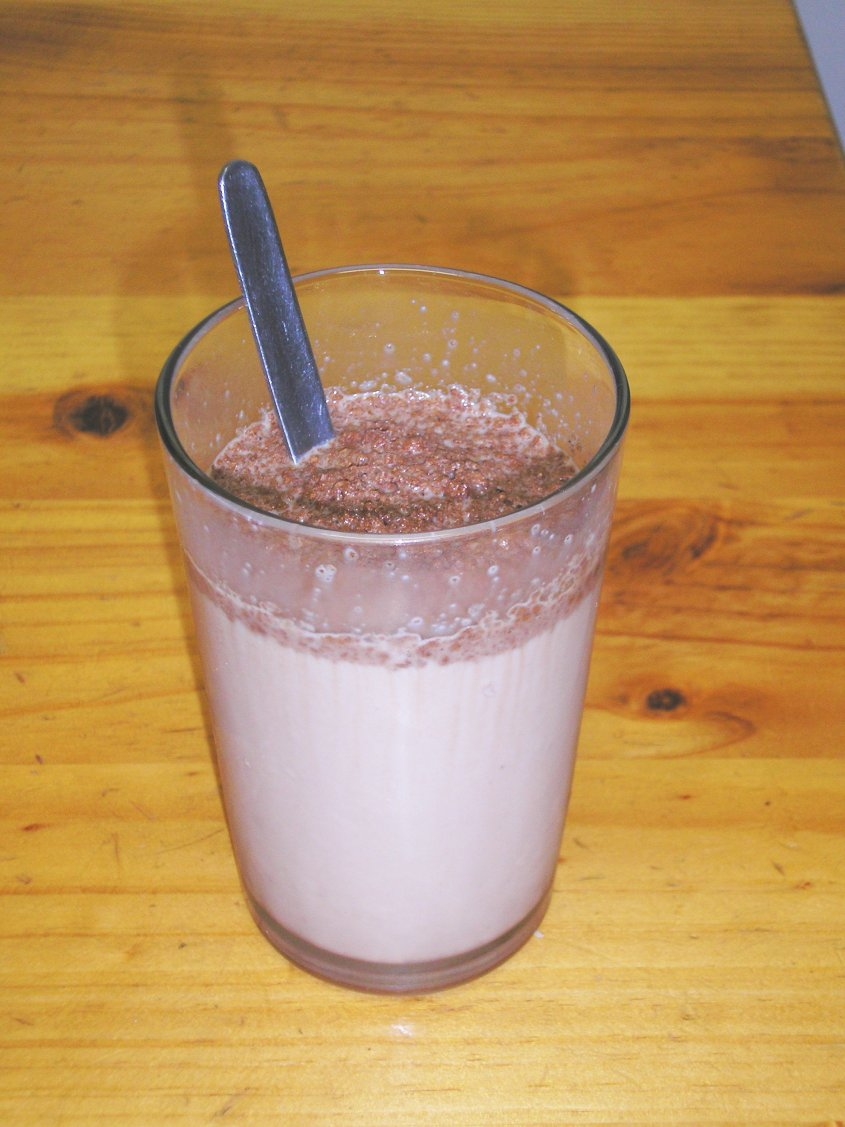 Cold Milo